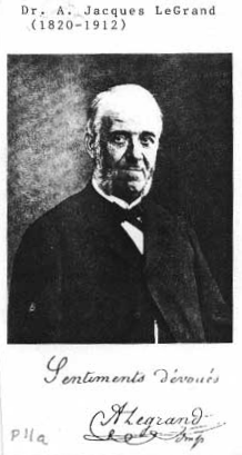 Dr. A. Jacques LeGrand (1820-1912), one of the first stamp collectors in France, entered philately through his nine-year old son in 1862, published a key article on watermarks in 1866 under the pseudonym of Dr. Magnus, proposed the first perforation gauge, which he called an odontometre, in October 1866